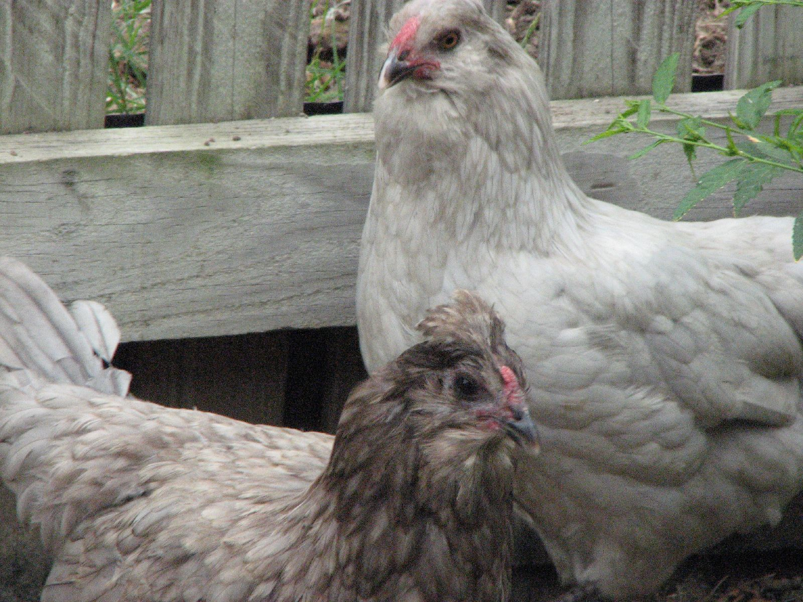 A pair of Easter Egger (mixed breeds that lay green-blue eggs) hens.